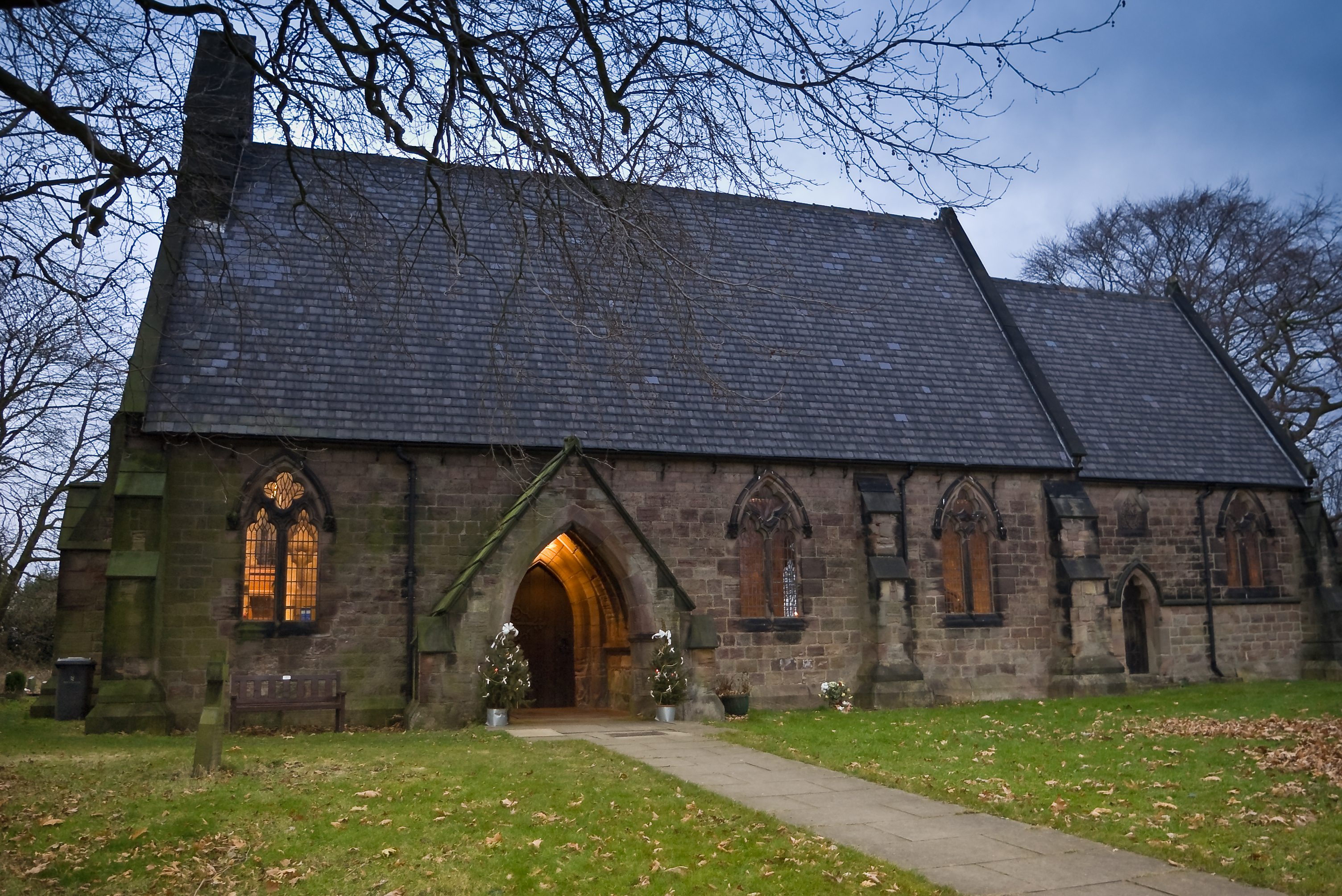 Holy Trinity church in the village of Ulley in Rotherham, South Yorkshire.